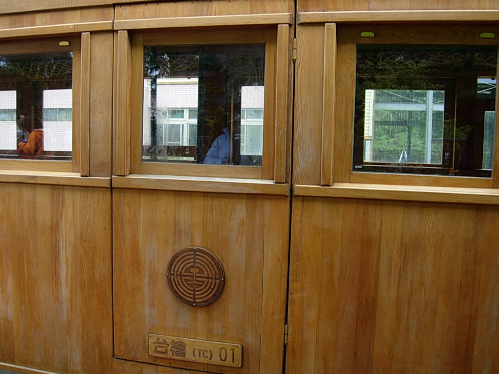 Alishan Forest Railway Passenger Car side 阿里山森林鐵路檜木車廂側面